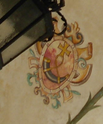 Suchekomnaty coat of arms in Baranow-Sandomierski castle. Detail of Image:Baranów Sandomierski - castle 11.JPG full resolution, by User:Piotrus and tagged with the same “self2.GFDL.cc-by-sa-2.5,2.0,1.0” license.